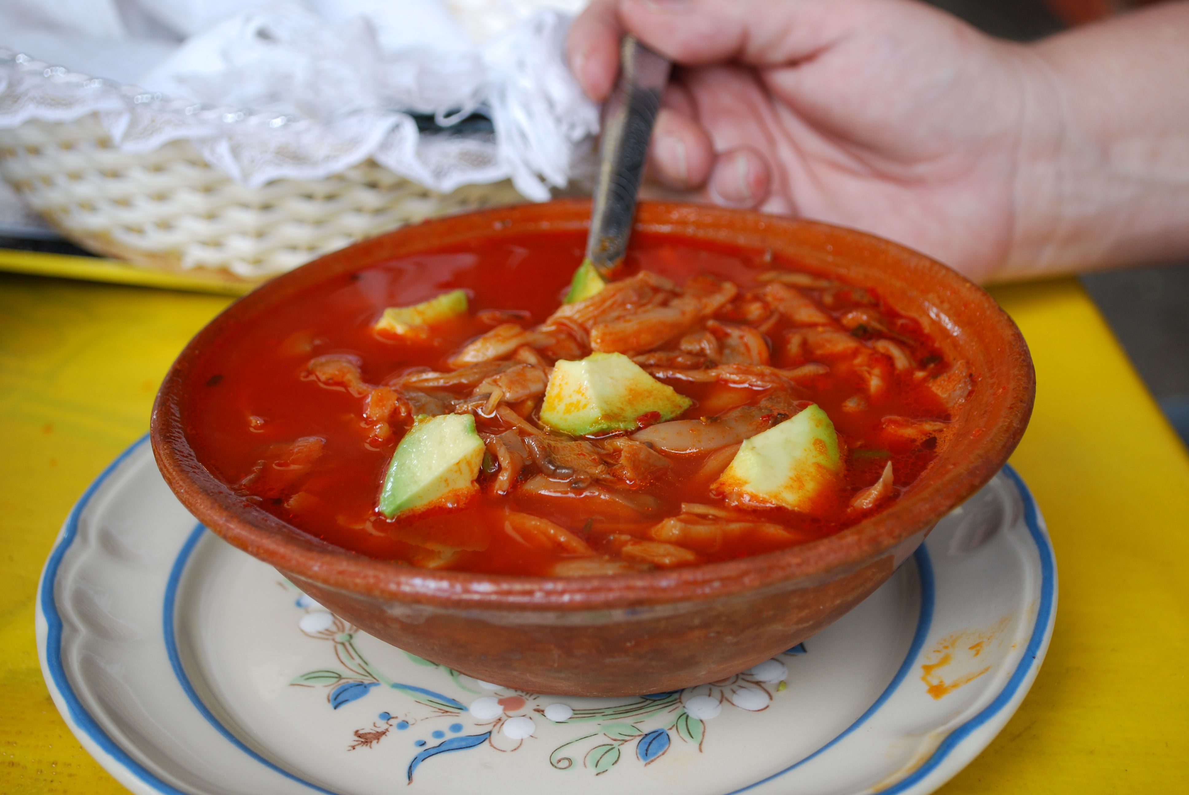 Sopa de Hongos or oyster mushroom soup with chili pepper at a roadside stand in Ocoyoacac, Mexico State, Mexico